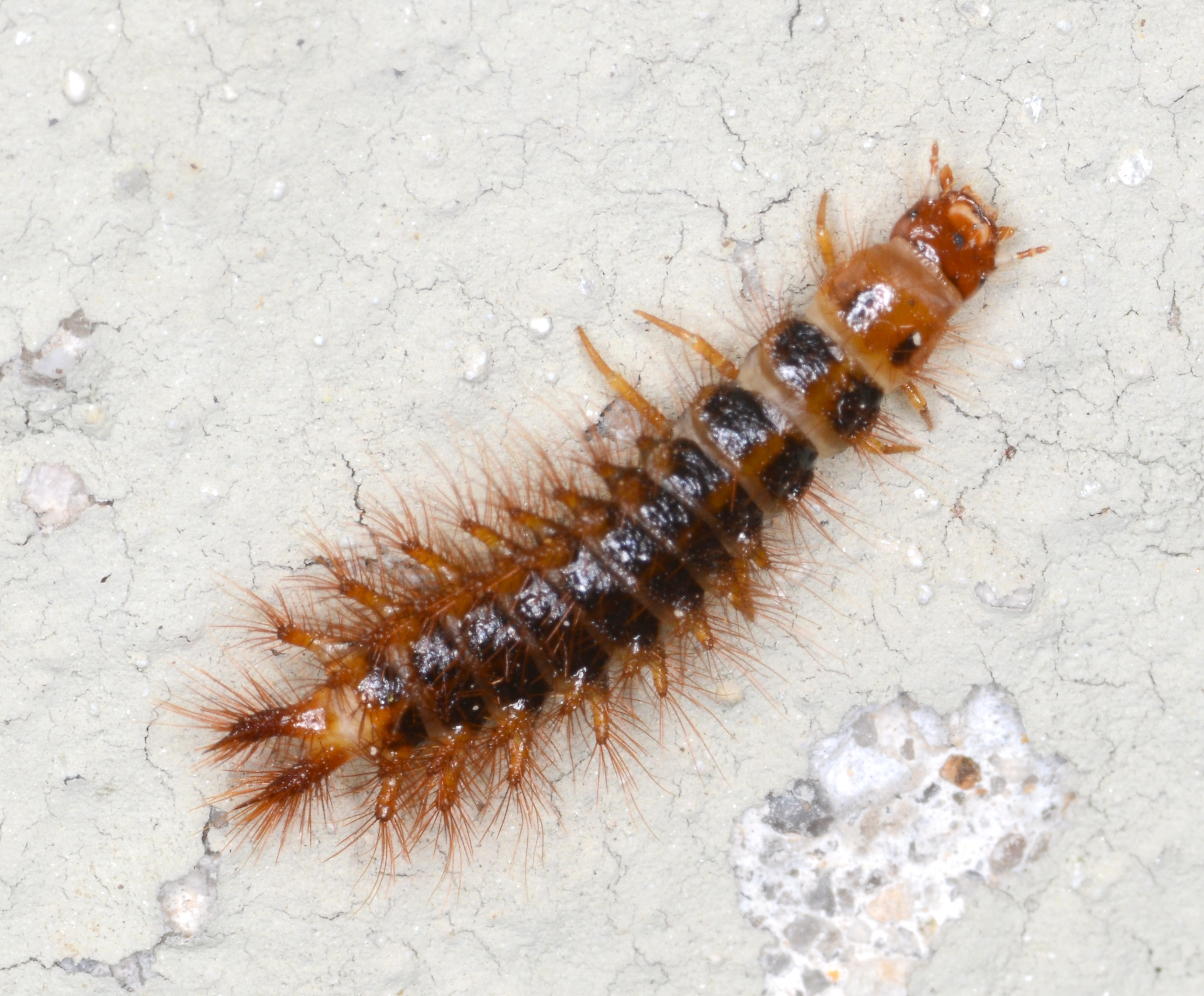 unidentified. photographed in southern germany.